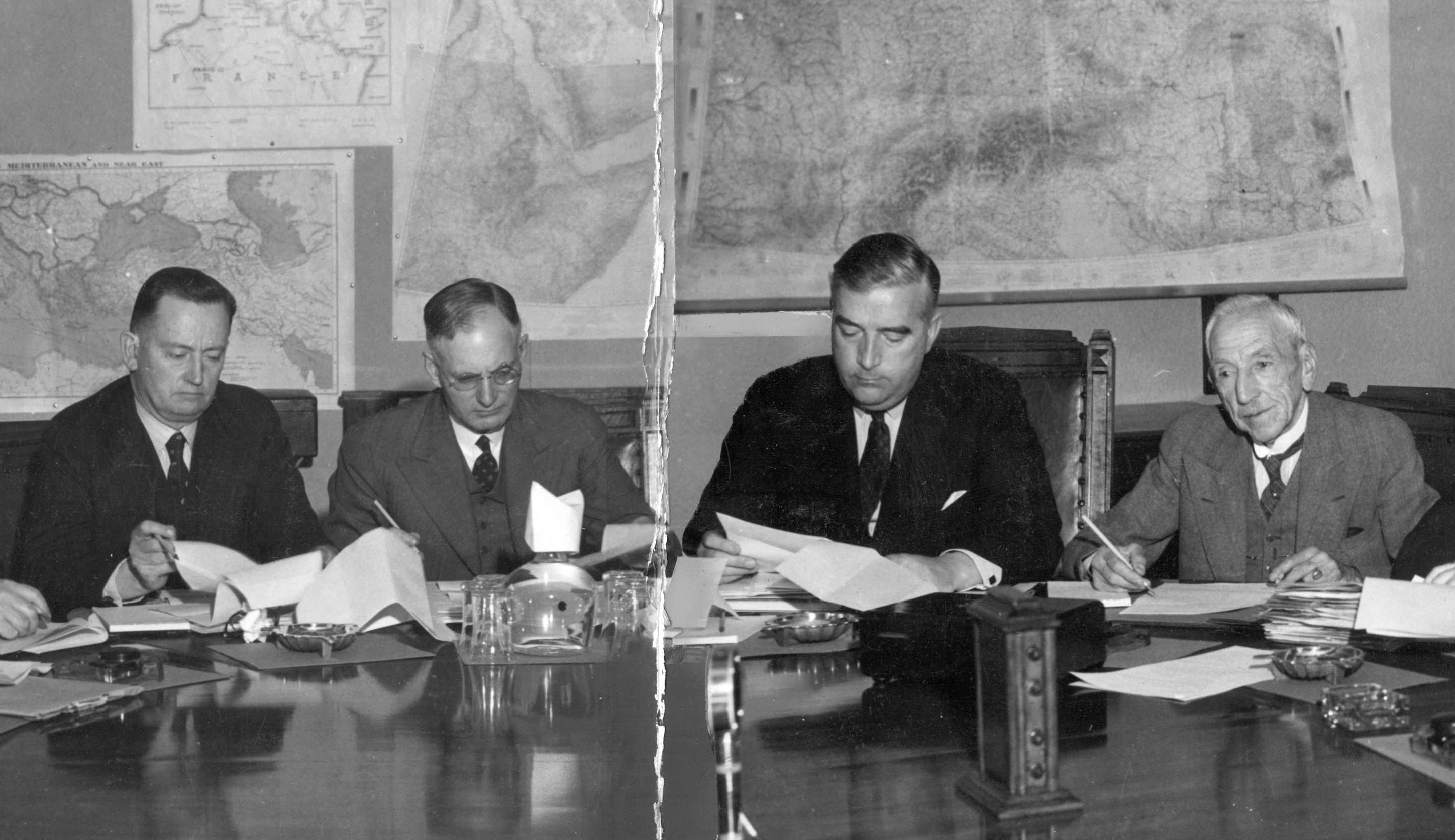 Four Prime Ministers of Australia (past, present, and future) at a meeting of the Advisory War Council in Canberra in 1940. From left to right: Frank Forde – Deputy Leader of the Opposition John Curtin – Leader of the Opposition Robert Menzies – Prime Minister and Minister for Defence Co-ordination Billy Hughes – Attorney-General and Minister for the Navy